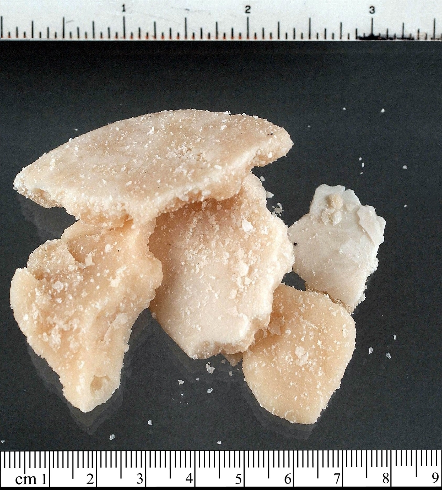 Crack cocaine beside a ruler (Ruler units not specified but having 16 sub-markings per unit suggests it is in inches)